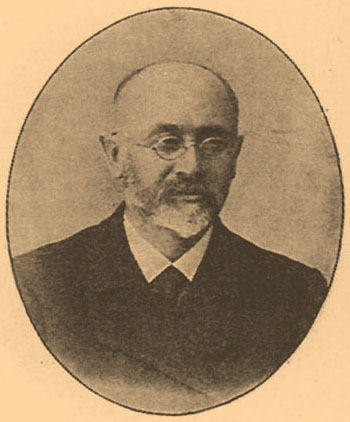 Illustration from Brockhaus and Efron Encyclopedic Dictionary (1890—1907)